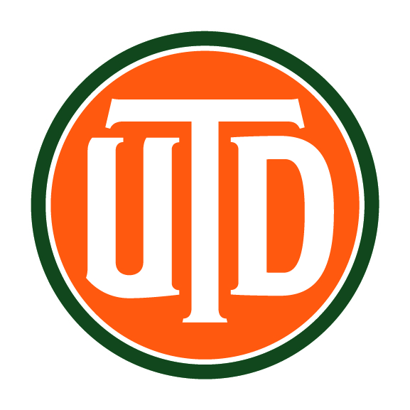 The University of Texas at Dallas Circle 2 color monogram logo. It contains the adopted Flame Orange "UTD" monogram created in 2017 and an Evergreen accent.